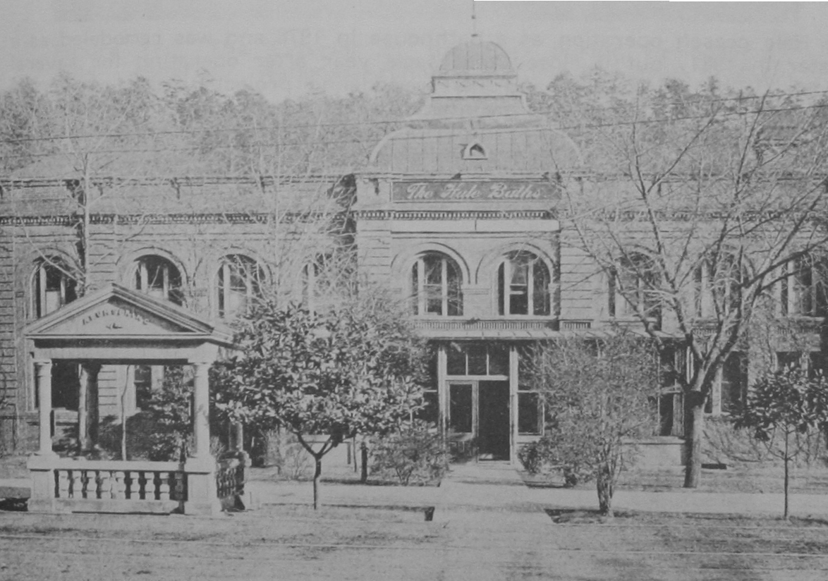 Hale Bathhouse, on Bathhouse Row in Hot Springs National Park, 1892-1893. The Alum Spring Pavilion is on the far left.